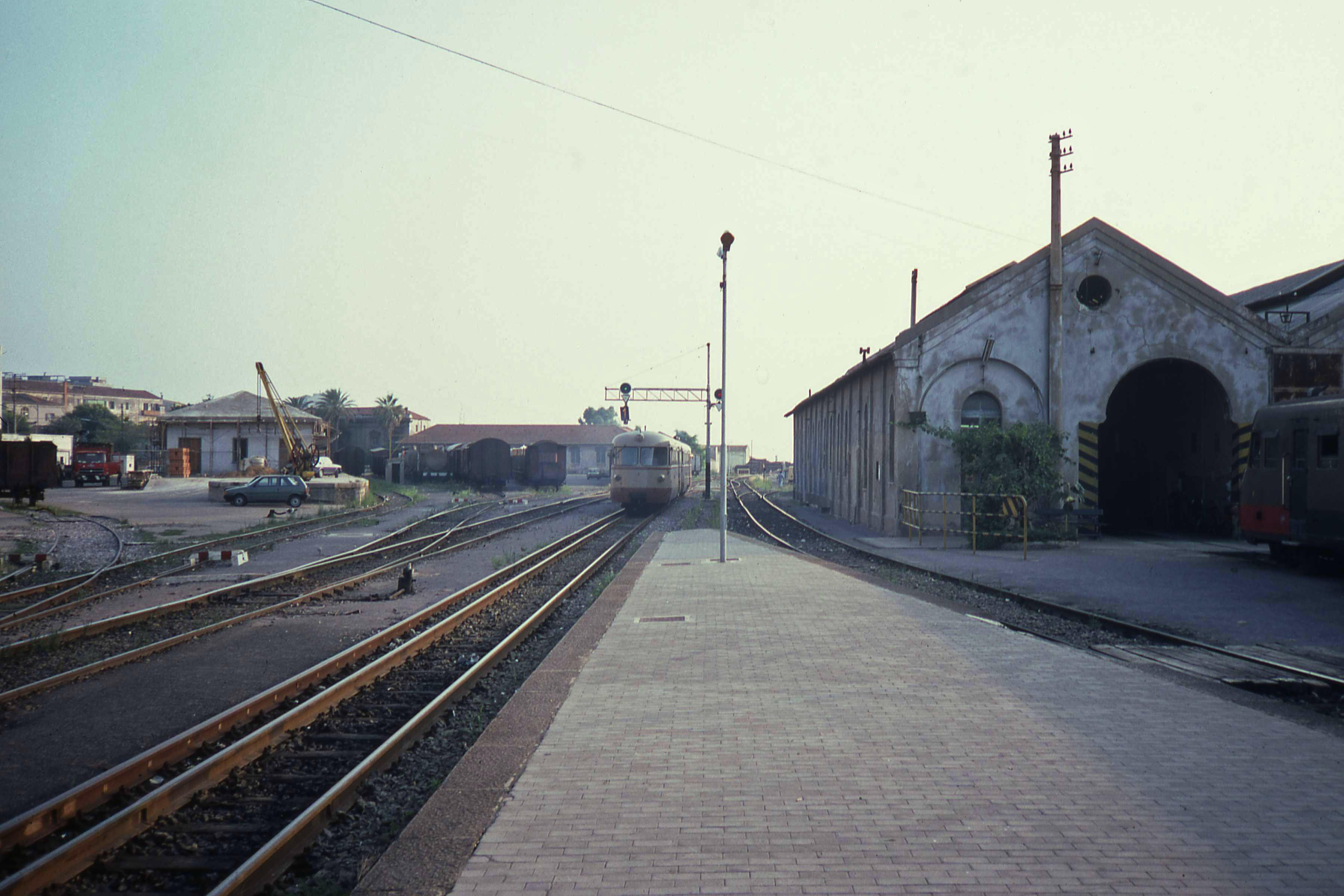 Station backyard in Sassari. In the background a FdS railcar. Note the dual gauge track.